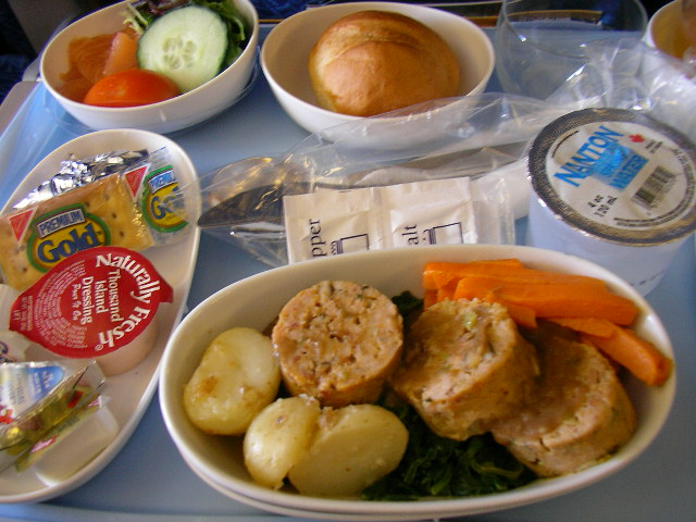 Singapore Airlines inflight meal